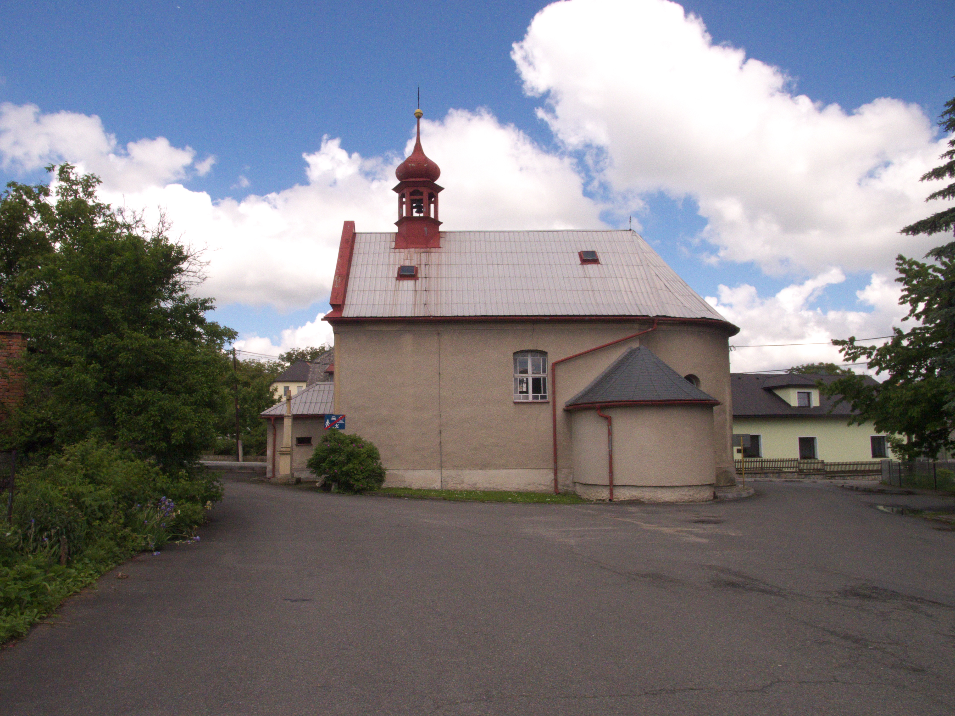 Postrelmuvek